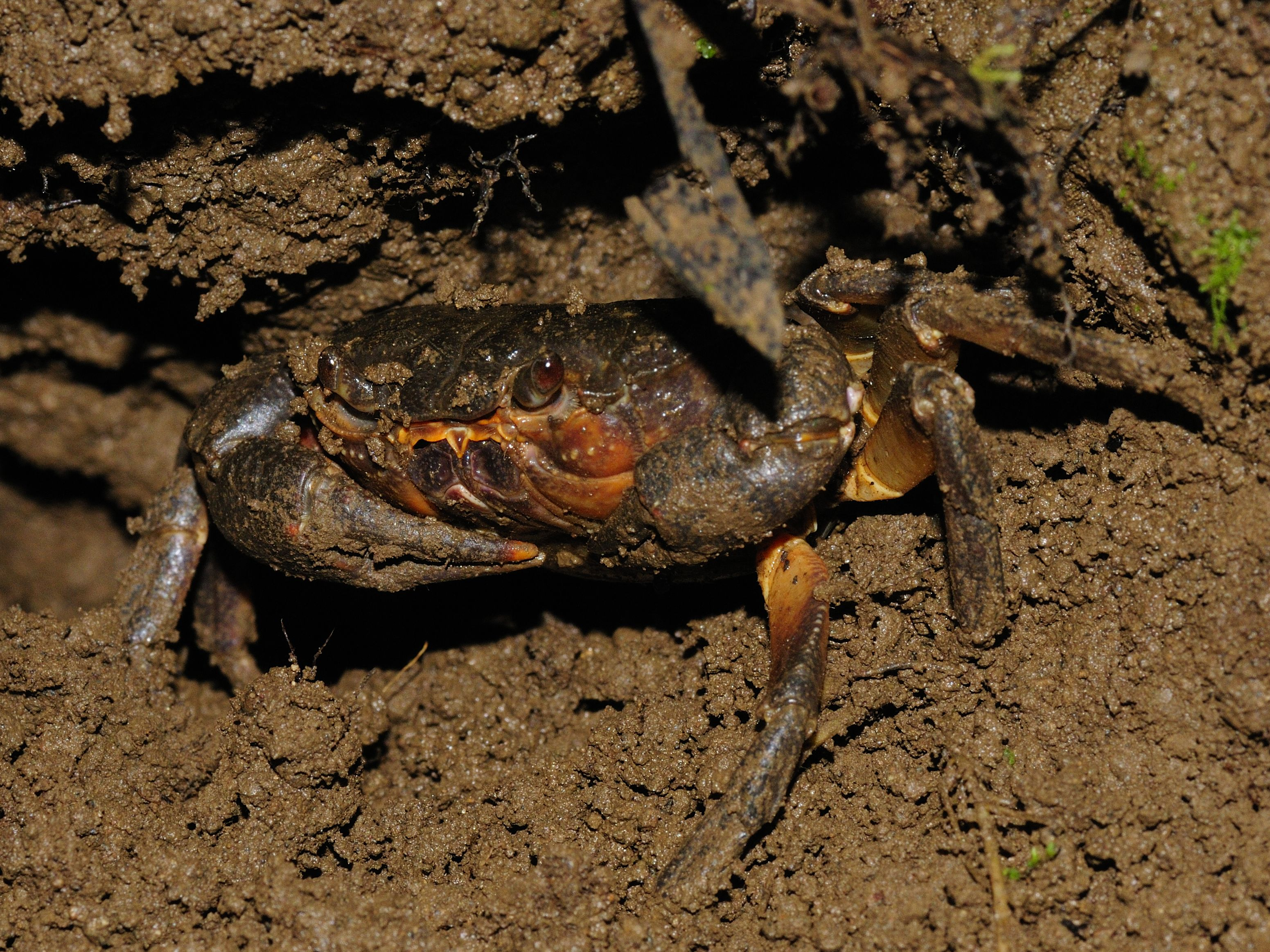 Potamon ibericum tauricum in Mtirala National Park in Georgia. Habitat: Ground hole on a forested slope ca. 15 m above a river.